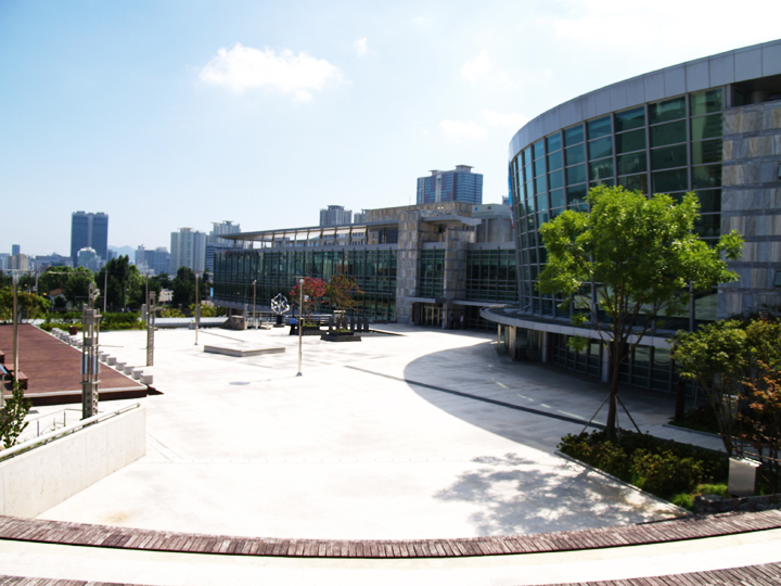 Scenery of National Center for Korean Traditional Performing Arts in Busan